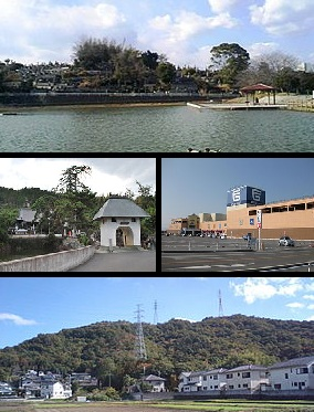 Ishii montage